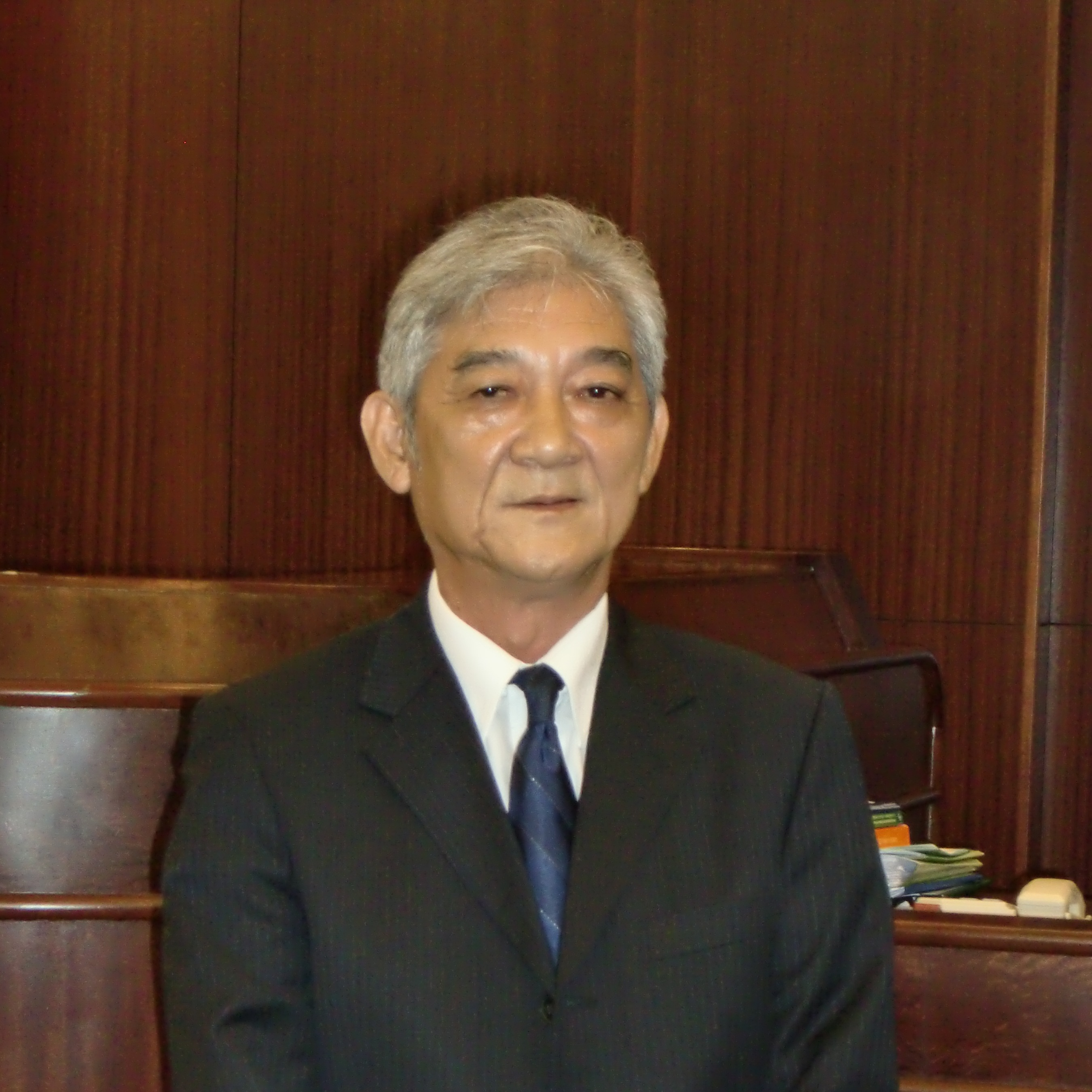 Lau Cheok Va, president of the 4th Legislative Assembly of Macao SAR